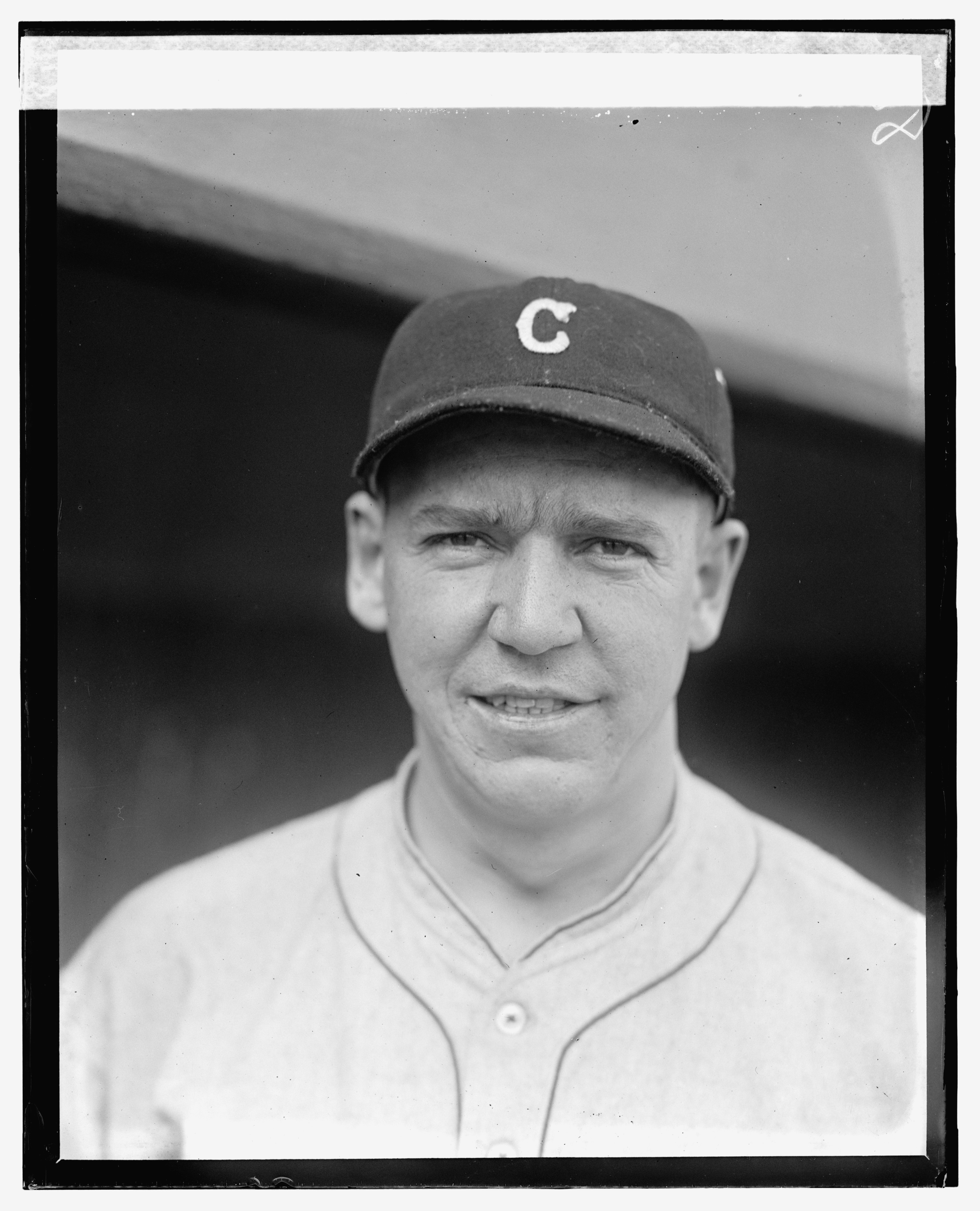 Title: Metevier, Cleveland, 1924 Abstract/medium: National Photo Company Collection (Library of Congress) Physical description: 1 negative